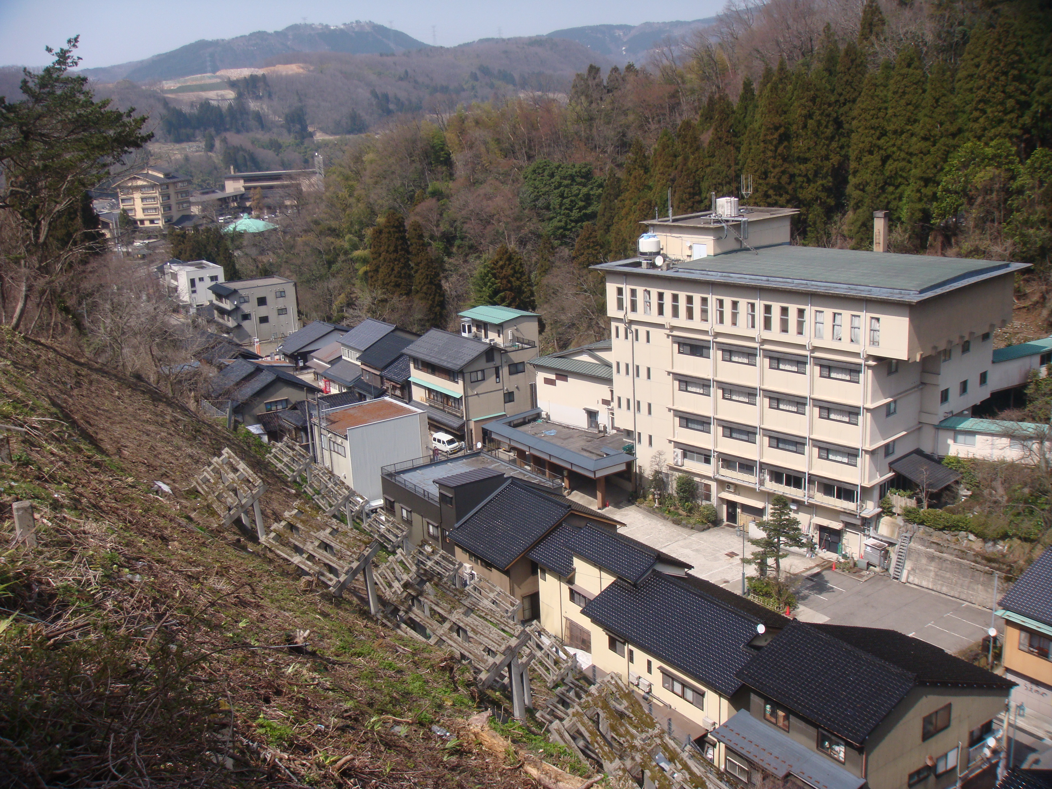 Yuwaku onsen Spa Place - Yuwakumachi, Kanazawa City, Ishikawa Prefecture, Japan Date - April 10, 2011 Format - JPEG, 3,648 × 2,736 pixels, 24bit colors